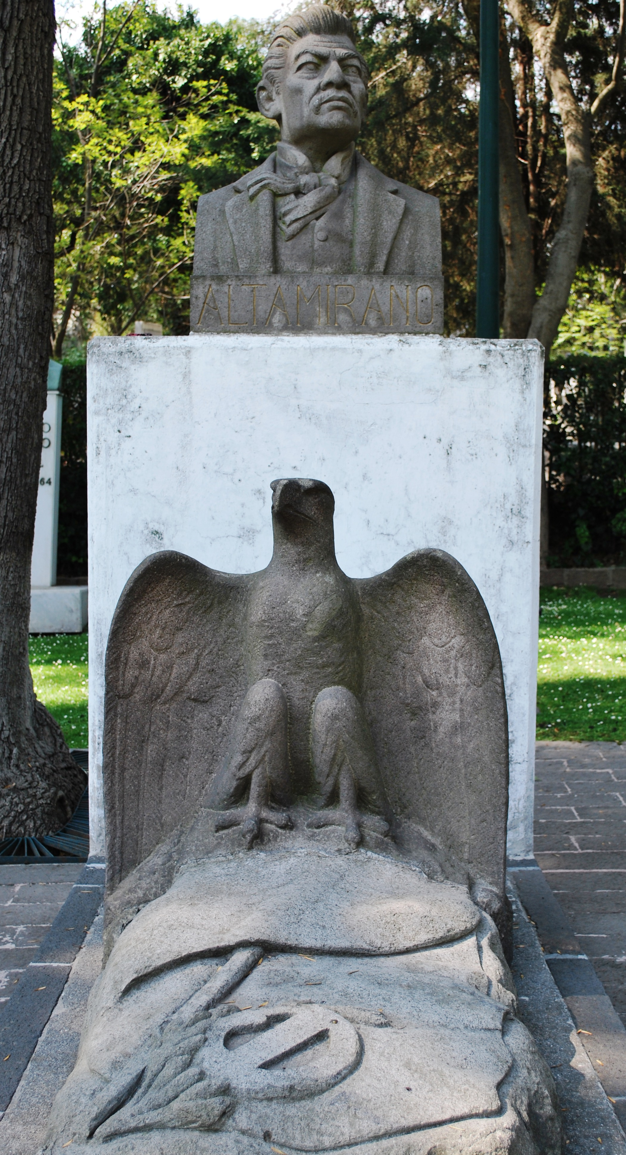 Tomb of Ignacio Manuel Altamirano located in the Panteón Civil de Dolores in Mexico City